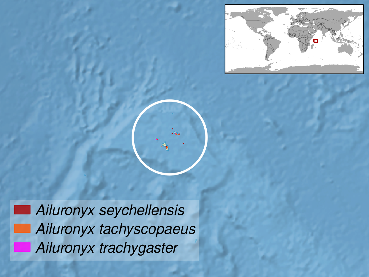 geographic distribution of the genus Ailuronyx (Native: Seychelles) included species for RDB: Ailuronyx seychellensis, Ailuronyx tachyscopaeus and Ailuronyx trachygaster